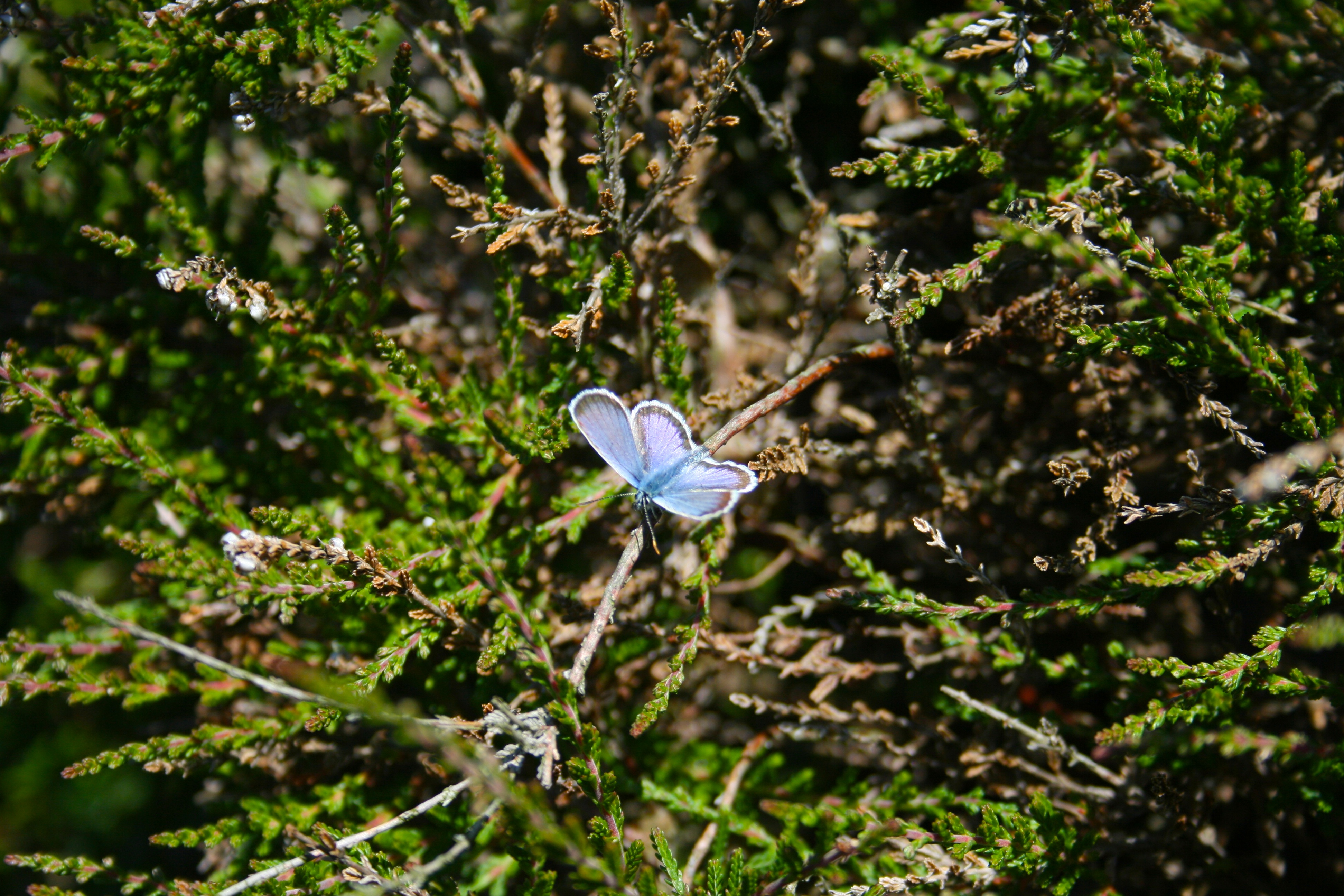 Butterfly in the heath of Stenshuvud national park